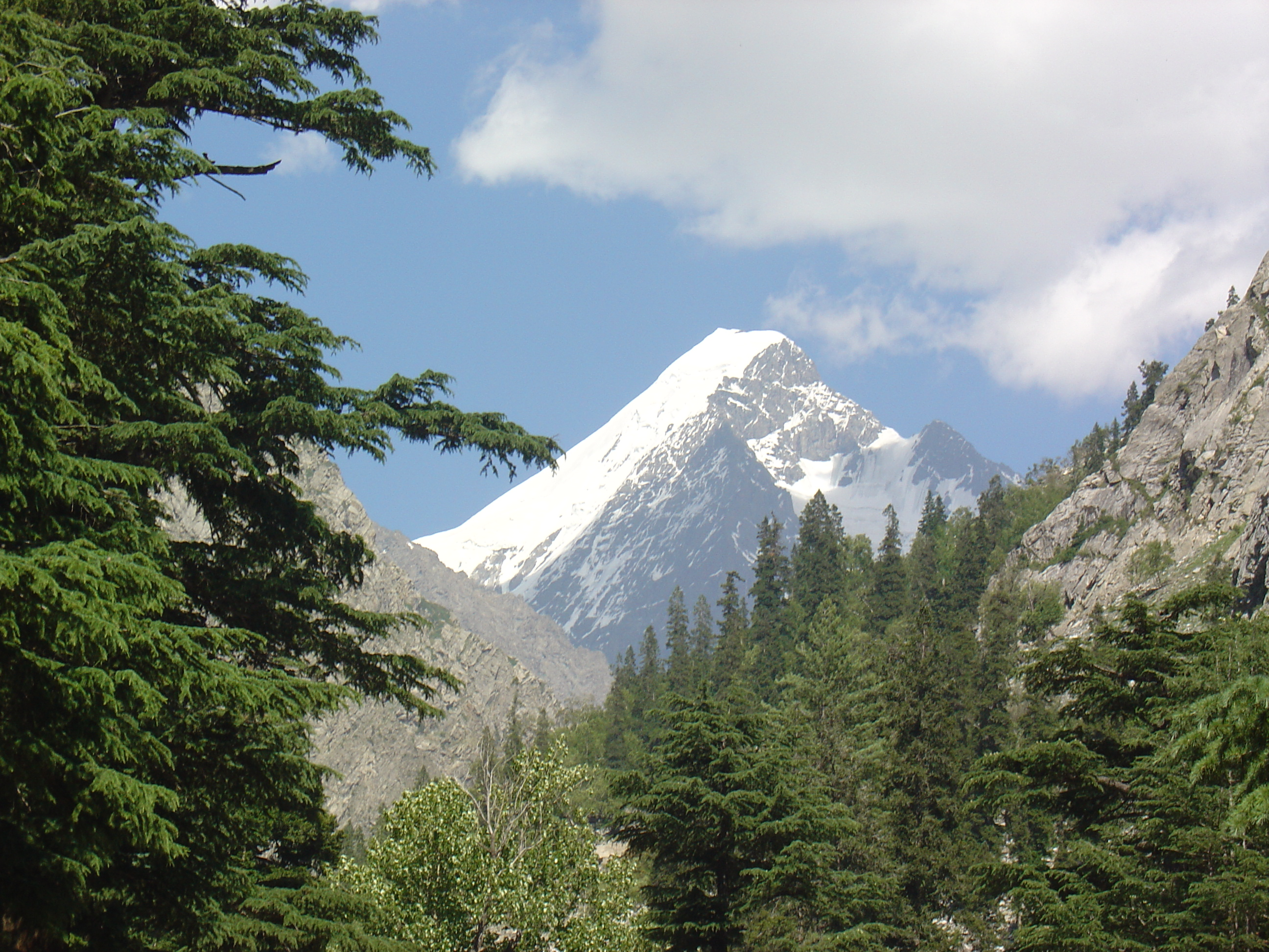 This picture was taken on a clear and sunny afternoon in summer of 2006, when situation in Swat valley was stable.This was taken from a point between Ushu glacier and Mahoudand lake. I, Dr. Najeeb Ansari(Karachi, Pakistan), have photographed this picture myself and release it under the GFDL. It is not copyright, anyone can use it or edit it.